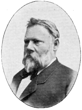 Image scanned from the book "Svenskt Porträttgalleri XX - Arkitekter, Bildhuggare, Målare m.fl. " ("Swedish Portrait Gallery XX - Architects, Sculptors, Painters, ") published 1901